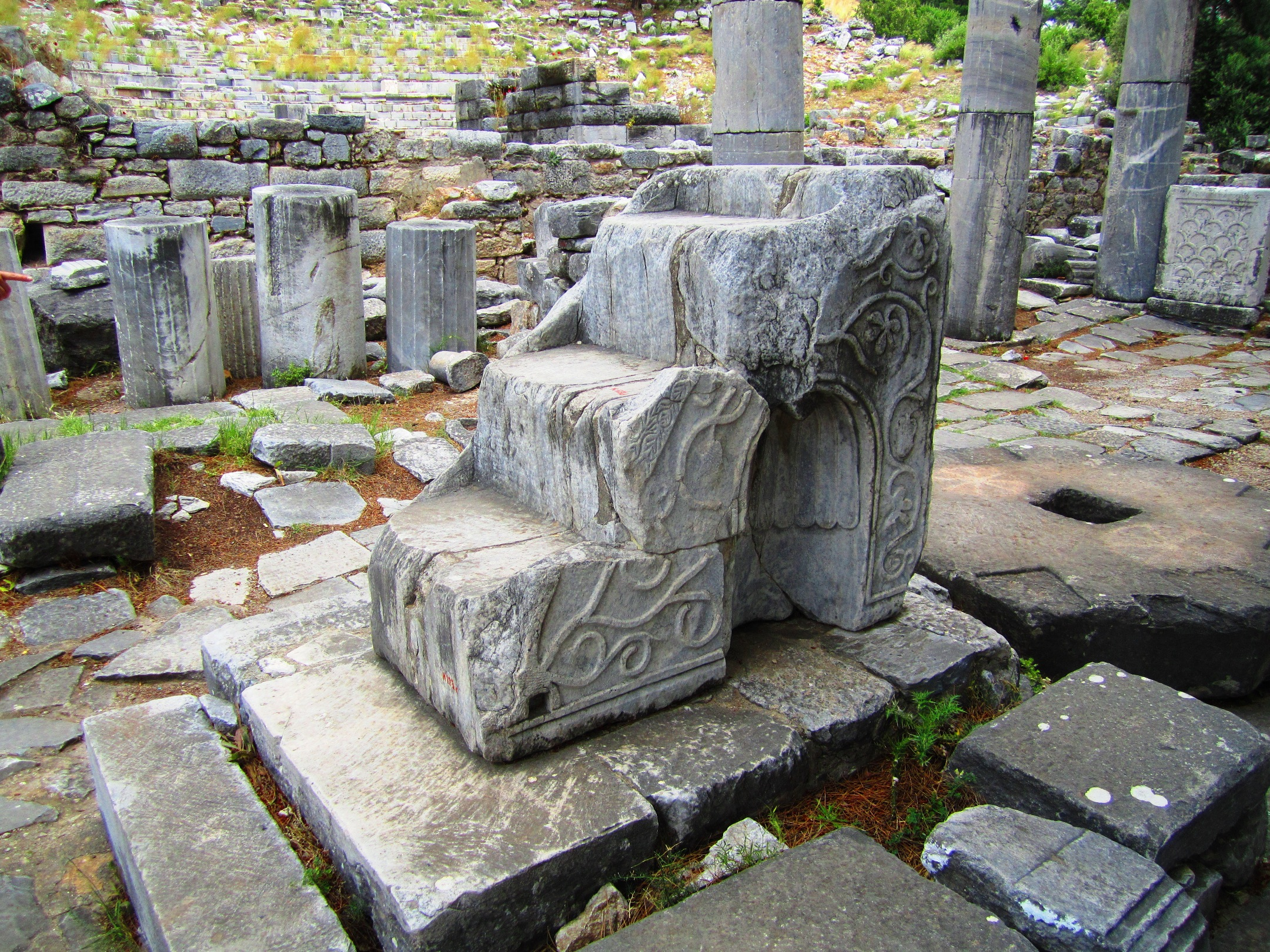 Byzanthin Church in Priene